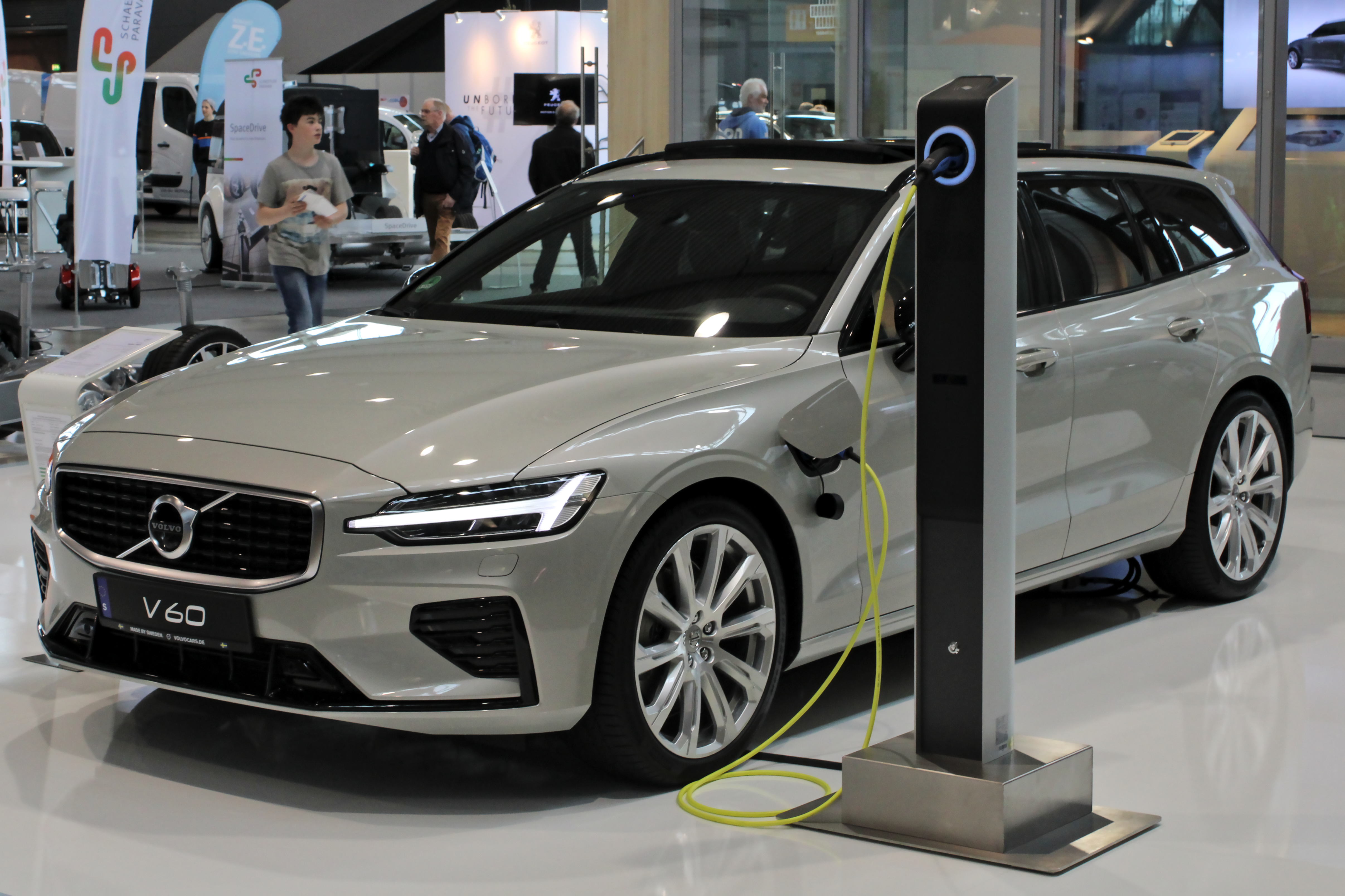 Volvo V60 T8 at i-Mobility 2019